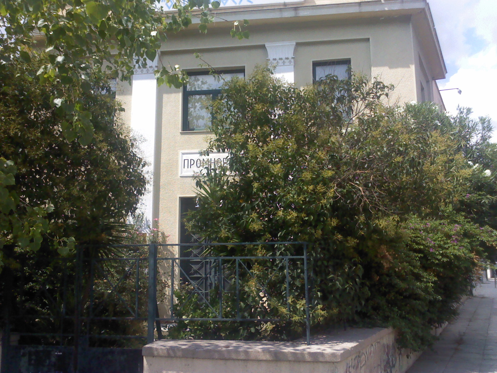 School Promitheas Kaminia